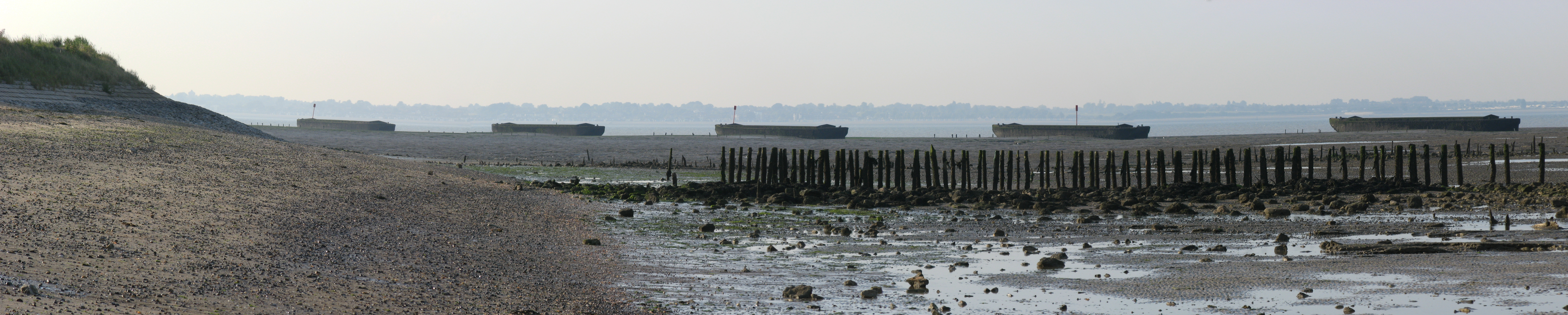 Sunken gravel filled barges used as a breakwater near Sales Point, Bradwell-on-Sea. Area within the Dengie SPA.